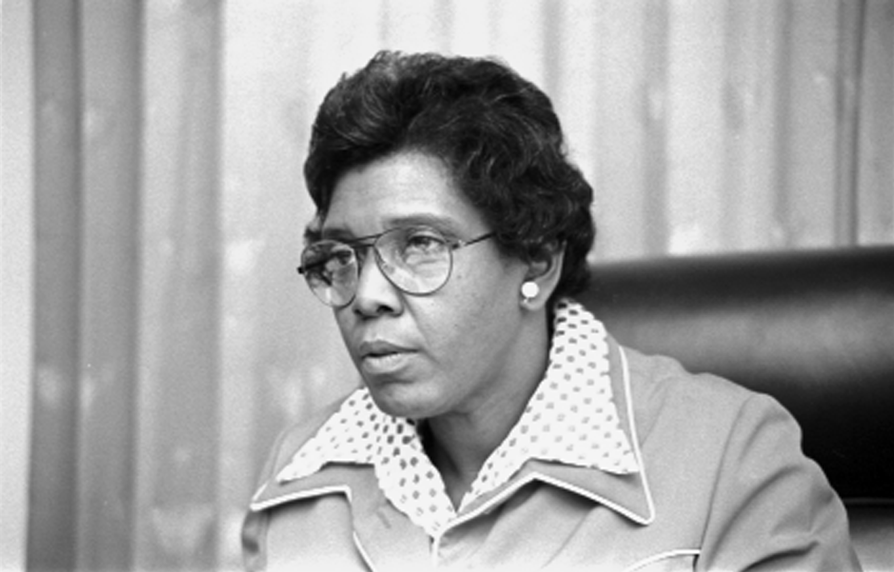 Barbara Jordan, member of the U.S. House of Representatives (D-Texas).